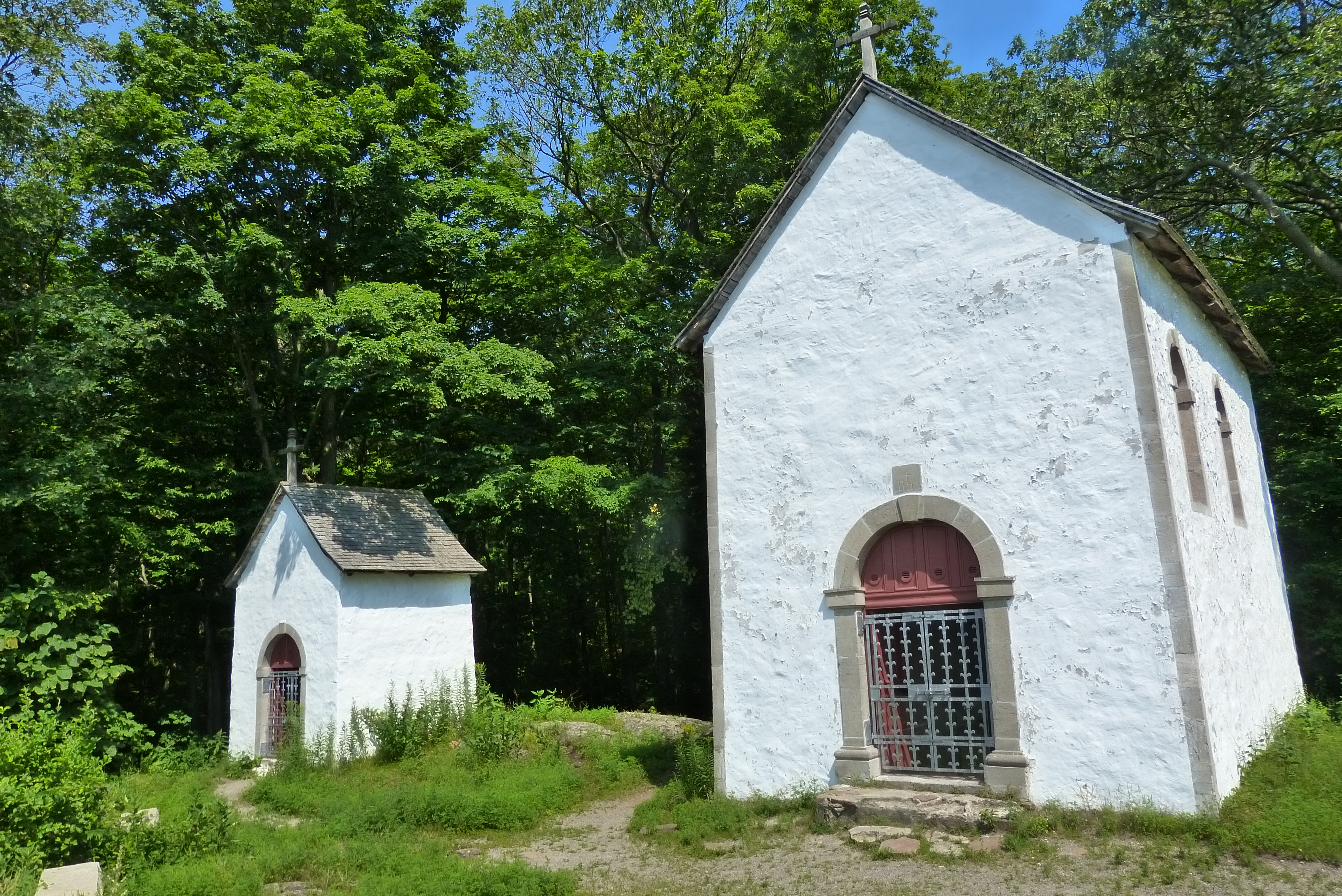 Two of the three chapels at the top of the Oka Calvary trail.